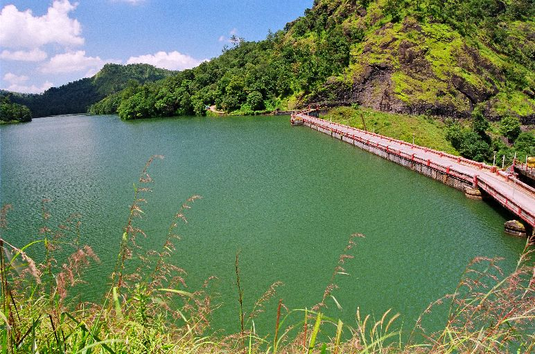 Ponmudi Dam